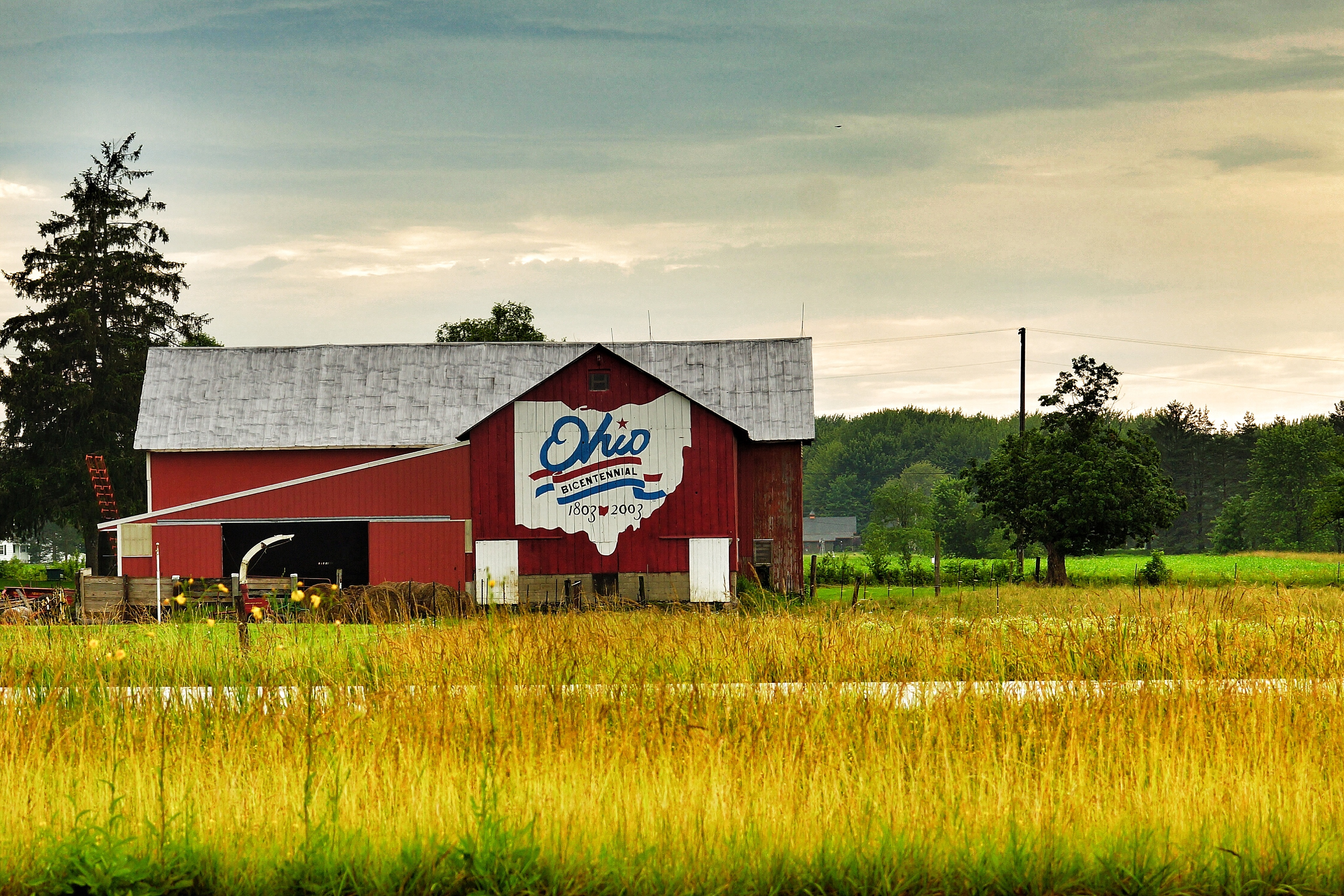 An Ohio Bicentennial Barn in Dorset Township, Ashtabula County, Ohio. [1] The Ohio Bicentennial Commission commissioned Scott Hagan to paint about 100 barns from 1997 to 2002 to commemorate Ohio's 200th anniversary in 2003. See Barn advertisement.